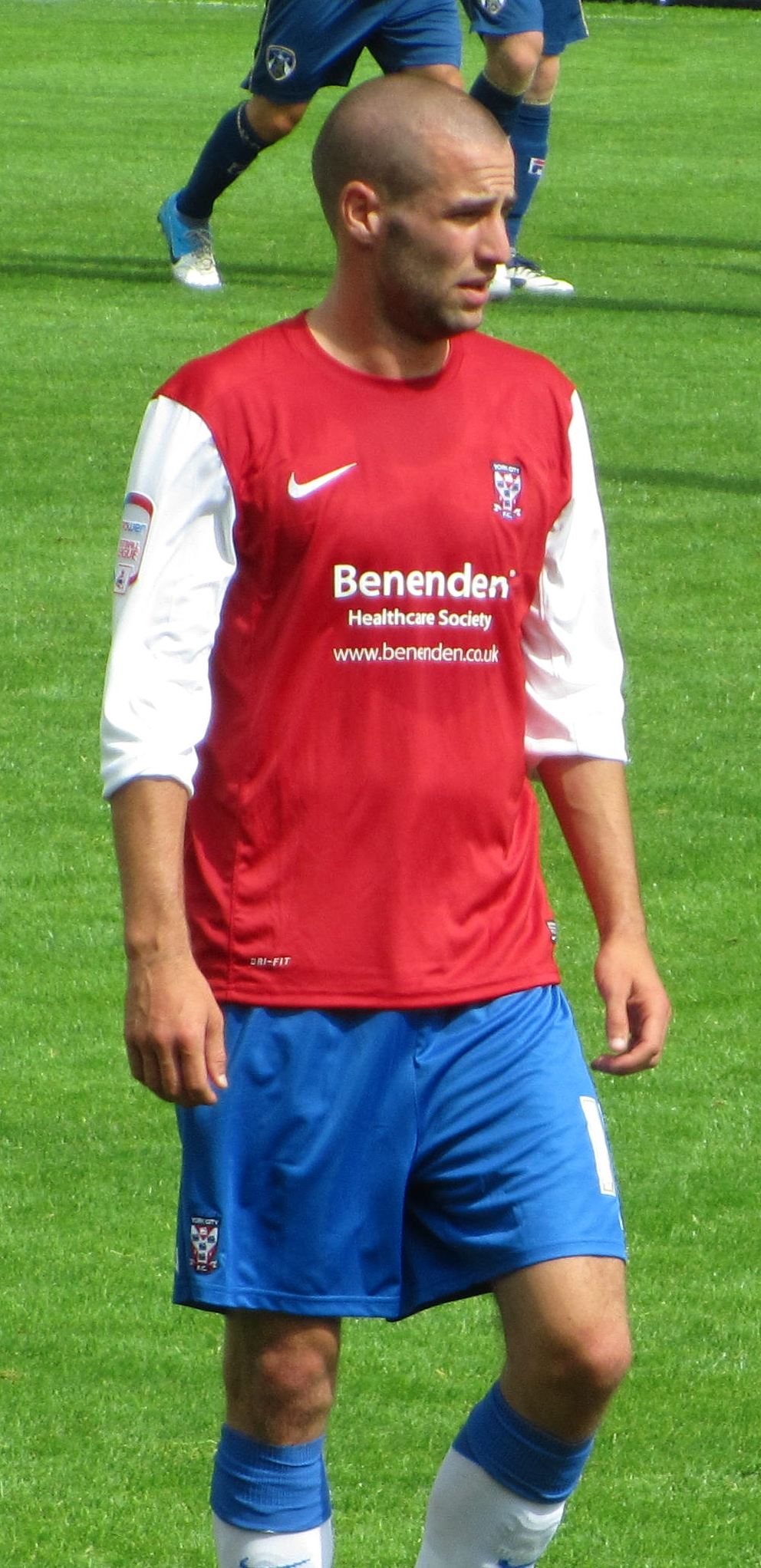 Matty Blair playing for York City against Oldham Athletic at Bootham Crescent, York on 21 July 2012